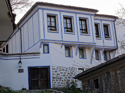 Calukov Hse